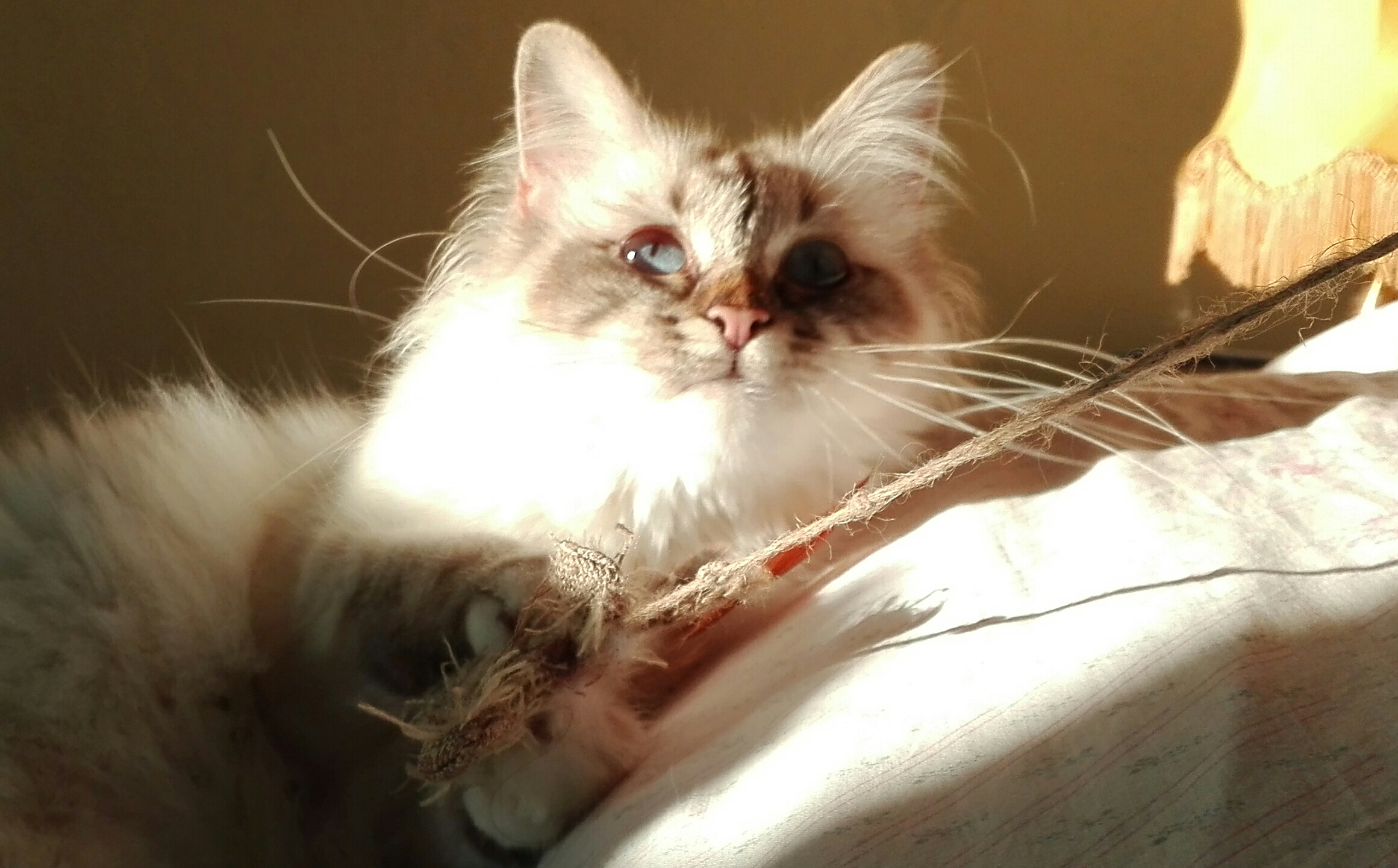 Giovane femmina di Sacro di Birmania colore chocolate tabby point.